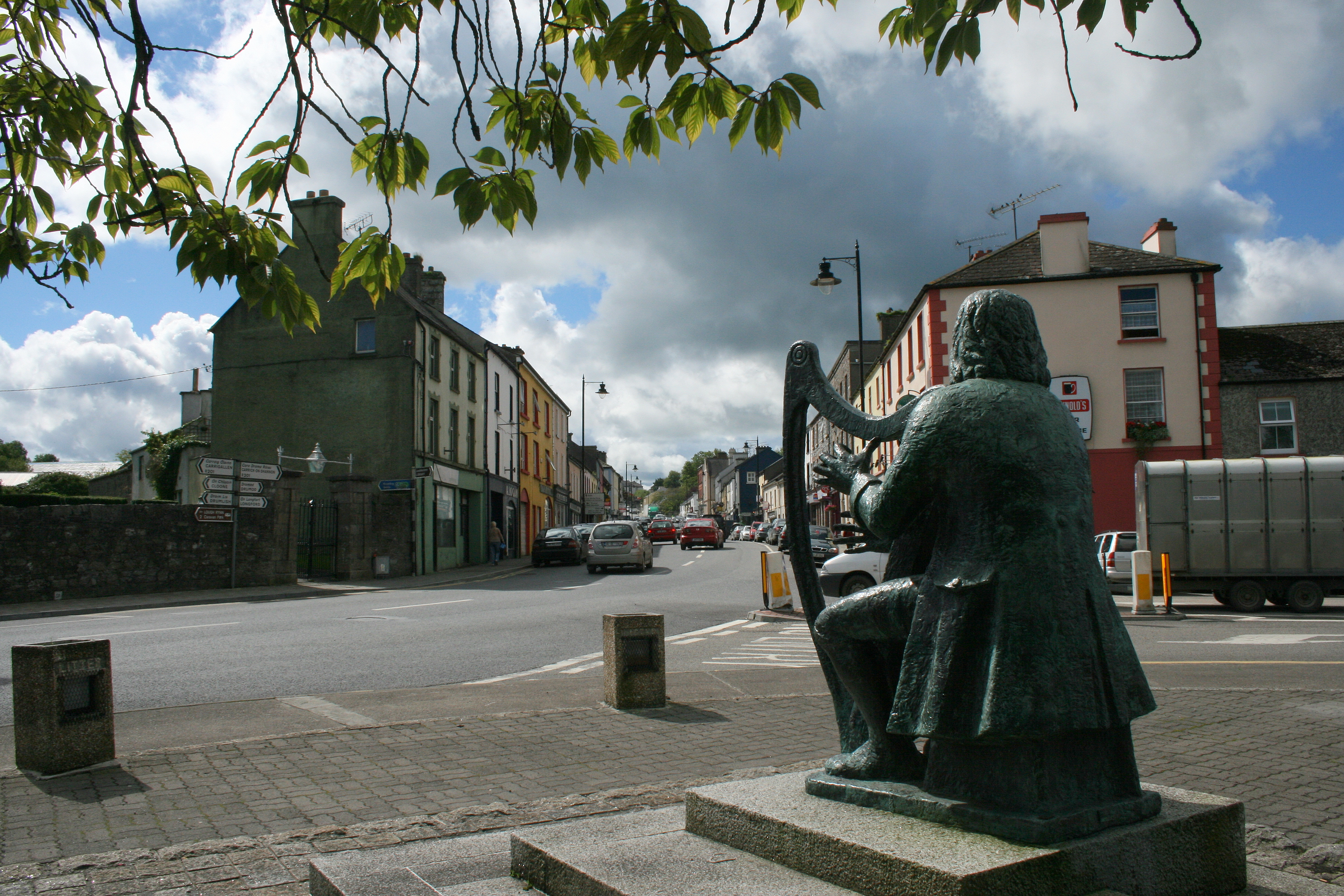 Mohill, County Leitrim, The blind harpist, Carolan, lived much of his life in Mohill where this statue of him is located.